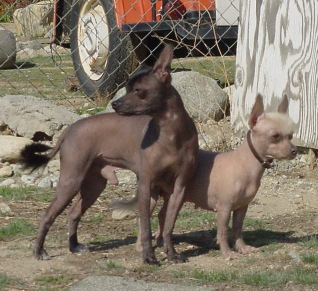 Mexican Hairless